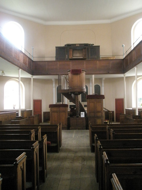 Inside St John the Evangelist's church, Chichester, West Sussex, looking east. A three-decker pulpit obscures the altar.